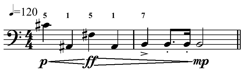 Non-idiomatic trombone part. Created by Hyacinth (talk) 22:10, 10 November 2010 using Sibelius 5.